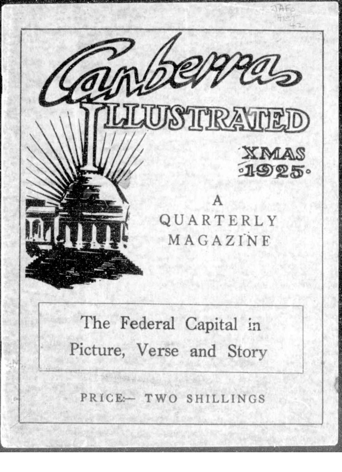 Front page of the Canberra Illustrated 1 November 1925